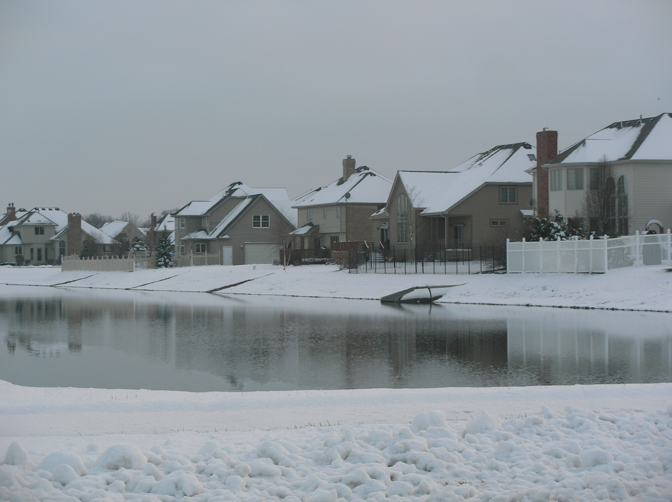 Munster, Indiana - White Oak Estates.